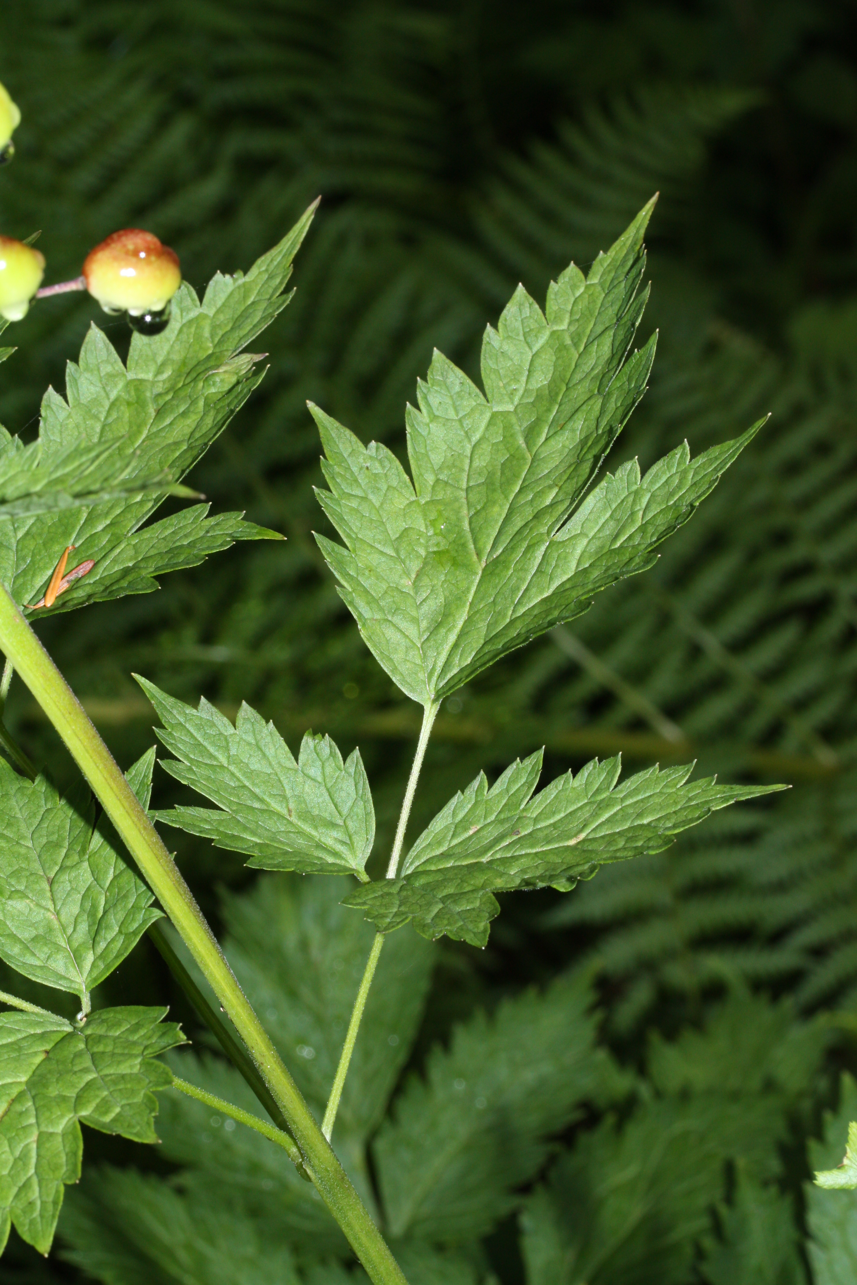 Red Baneberry